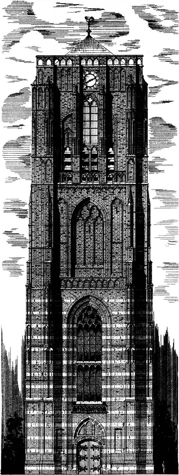 Church tower, Oirschot.